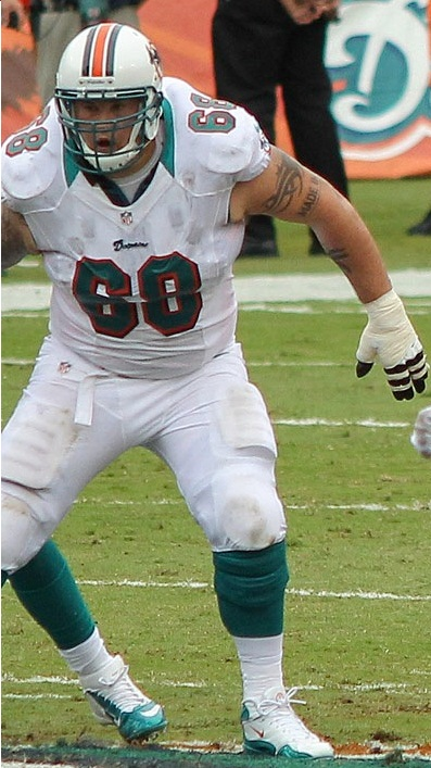 Quarterback Ryan Tannehill of the Miami Dolphins